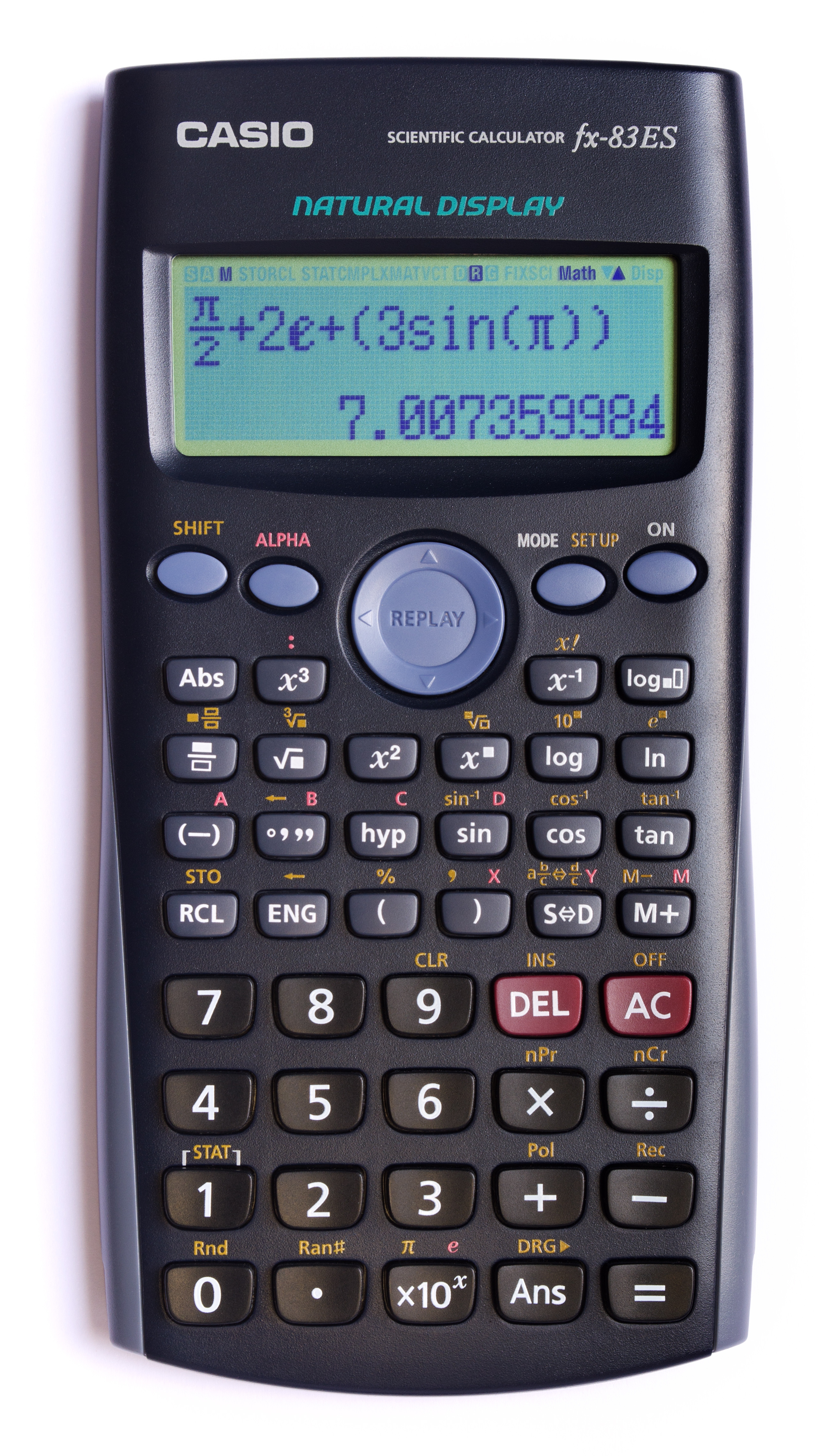 Casio fx-83ES calculator seen from front displaying calculation in "Natural Display" mode.